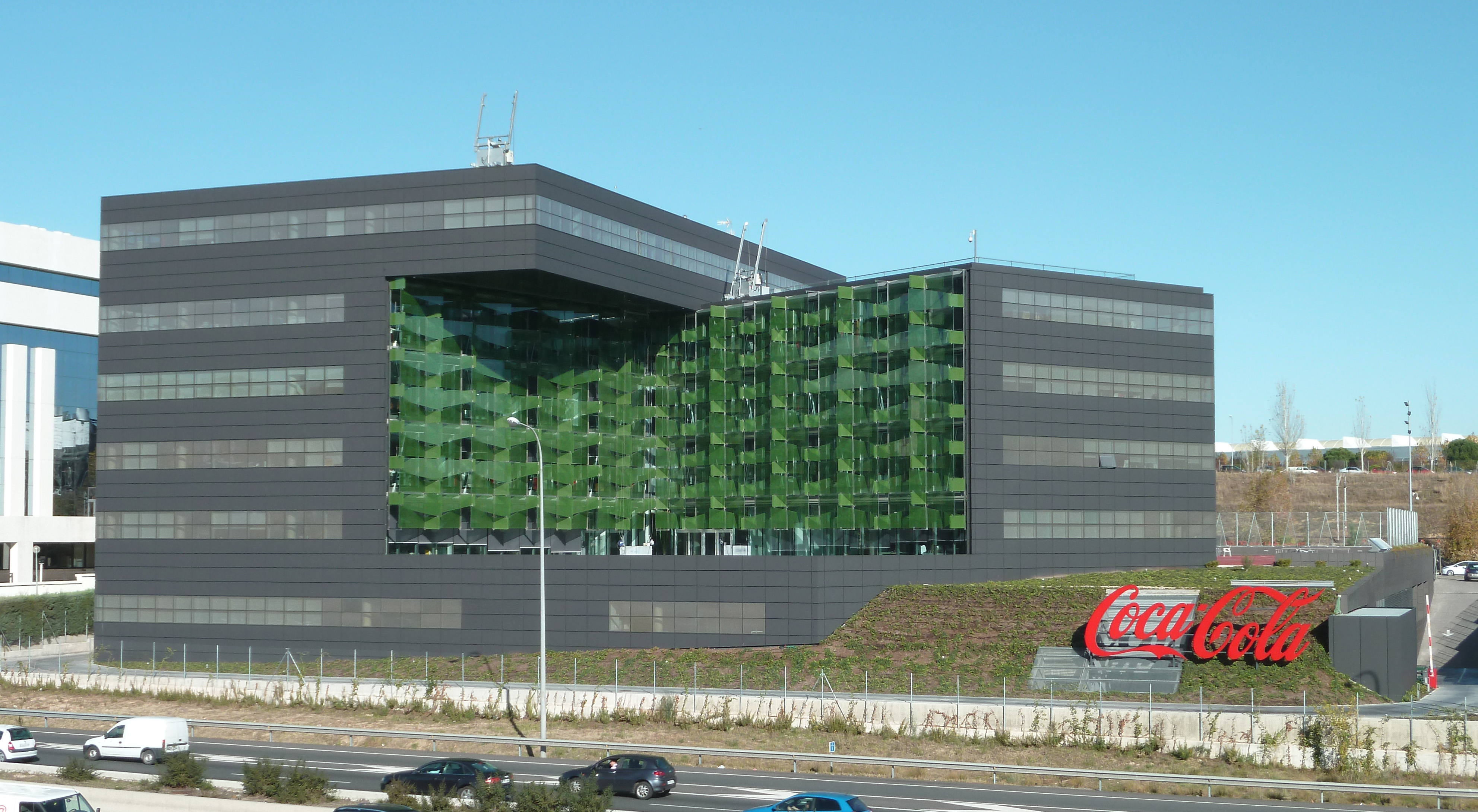 View of Coca-Cola offices in Madrid (Spain).